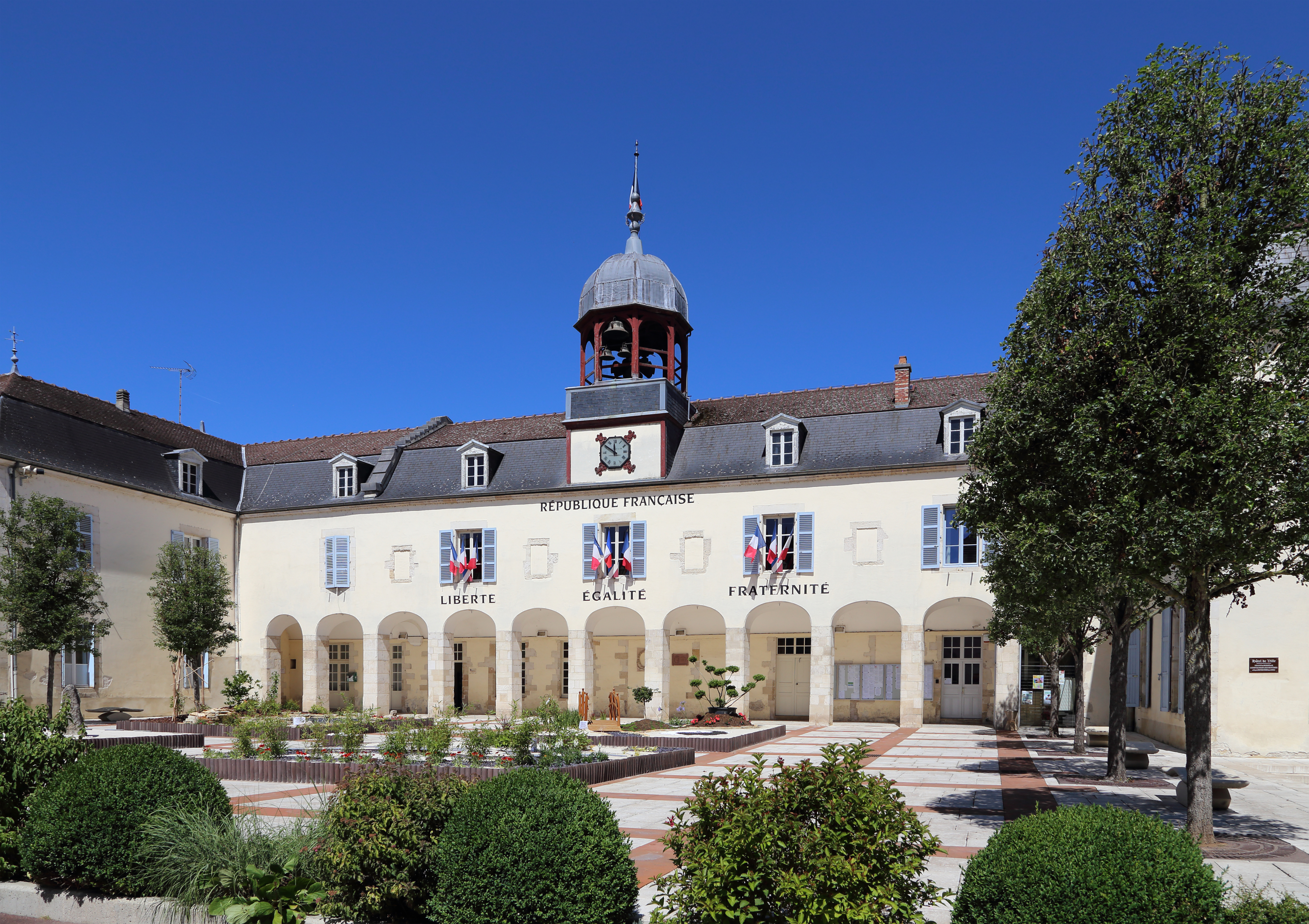 Bar-sur-Aube (Aube department, France): town hall